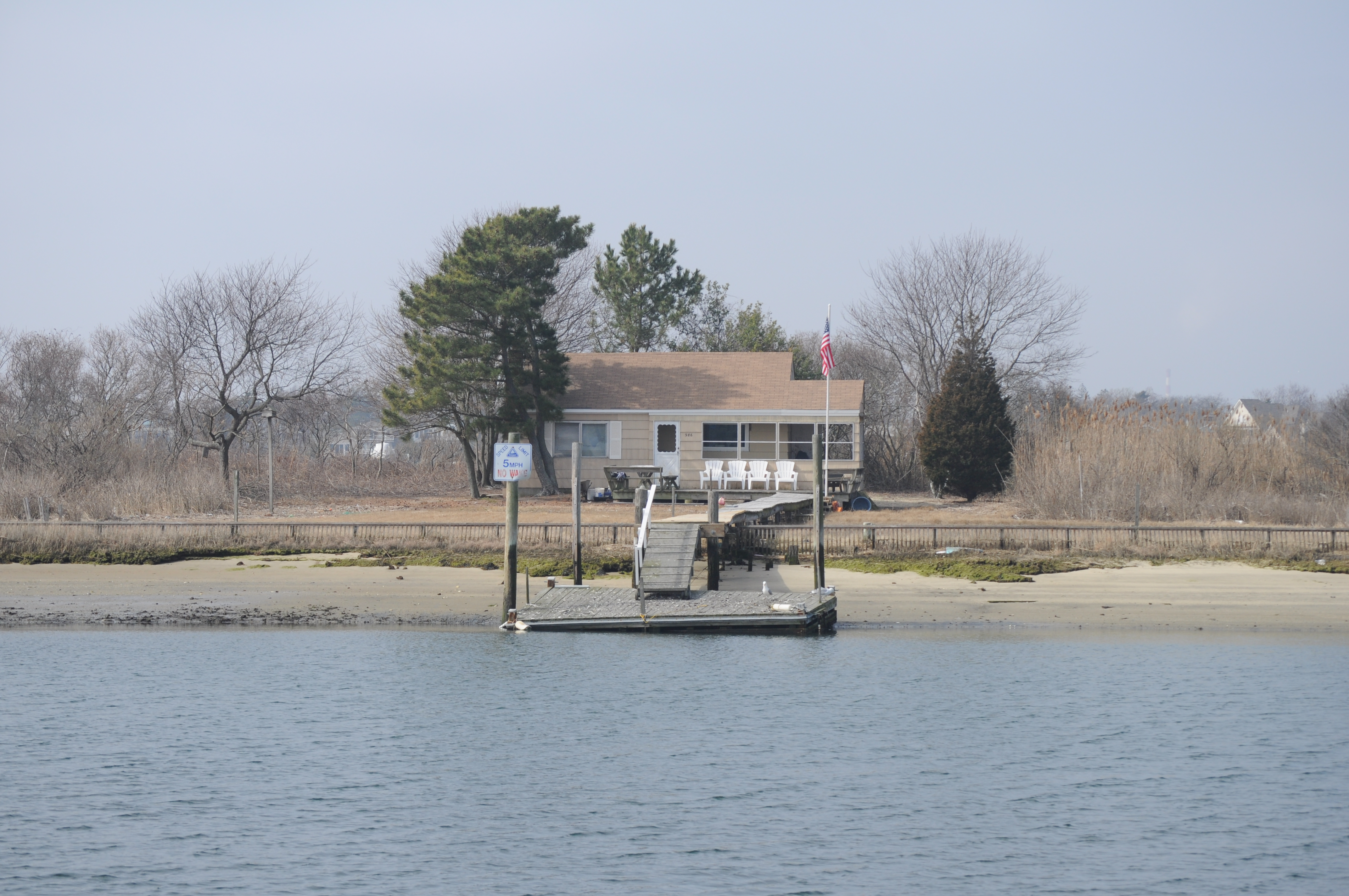 View across Baldwin Bay from Waterfront Park, Freeport, Long Island, New York to a house on a small island, technically still in Freeport.